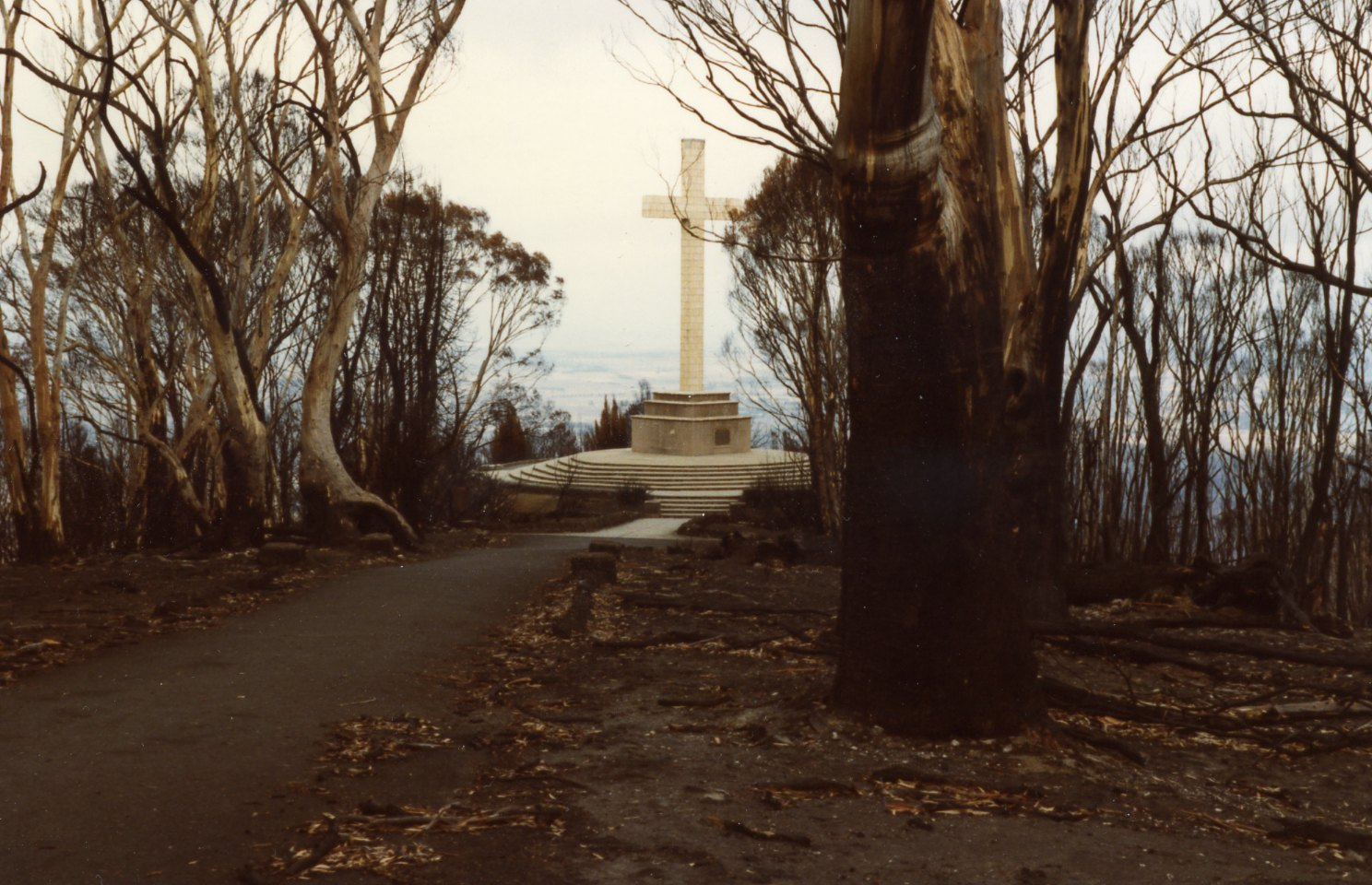 The memorial cross to the Anzacs